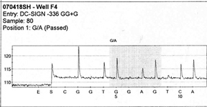 Example of a pyrogram as displayed after a pyrosequencing session. Produced by Zaimon.